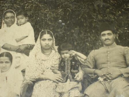 Nawab Fazal Nawaz Jung with wife Habeeba Begum and daughter at Somajiguda estate.